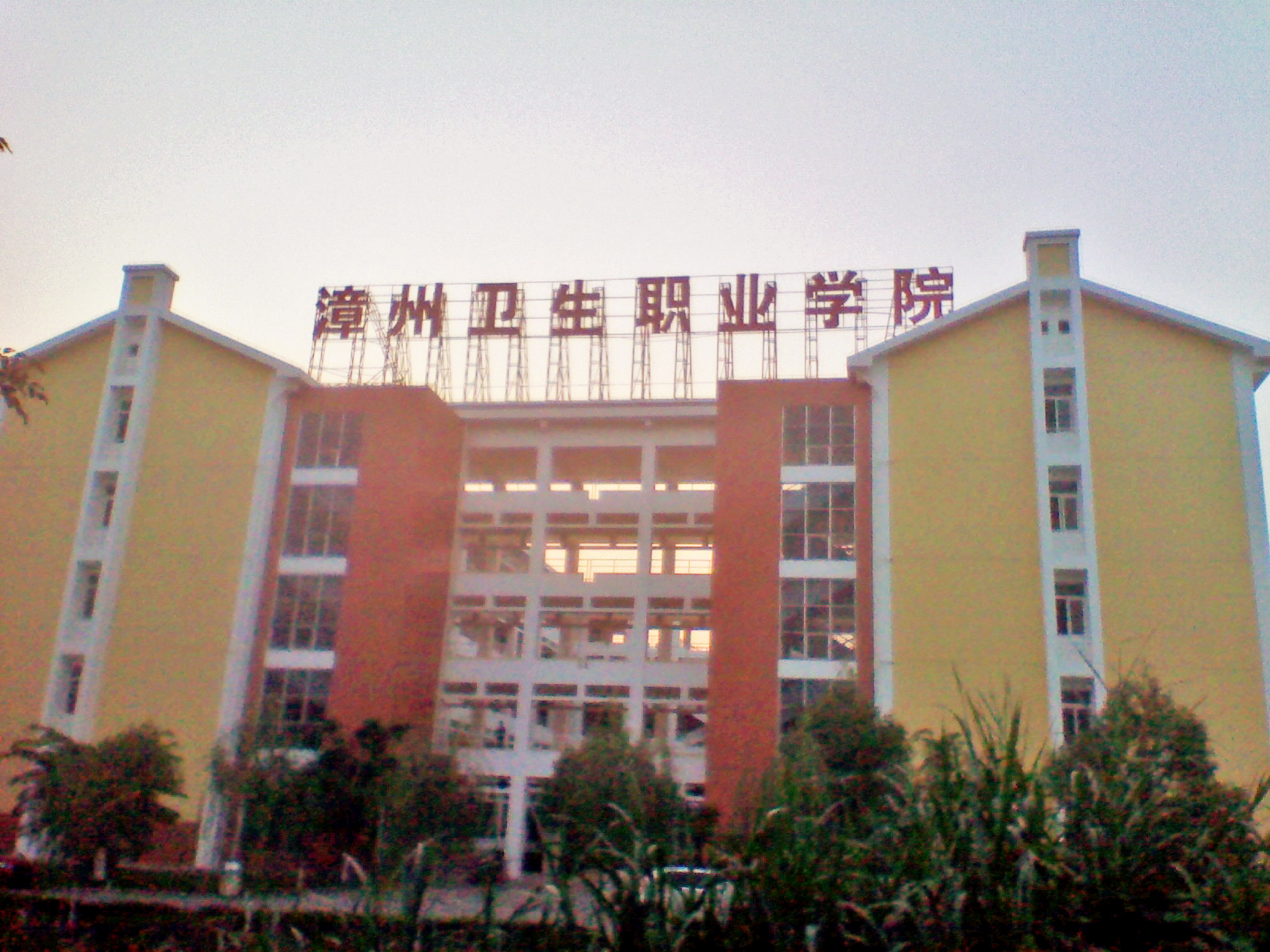 Zhangzhou Health Vocational College